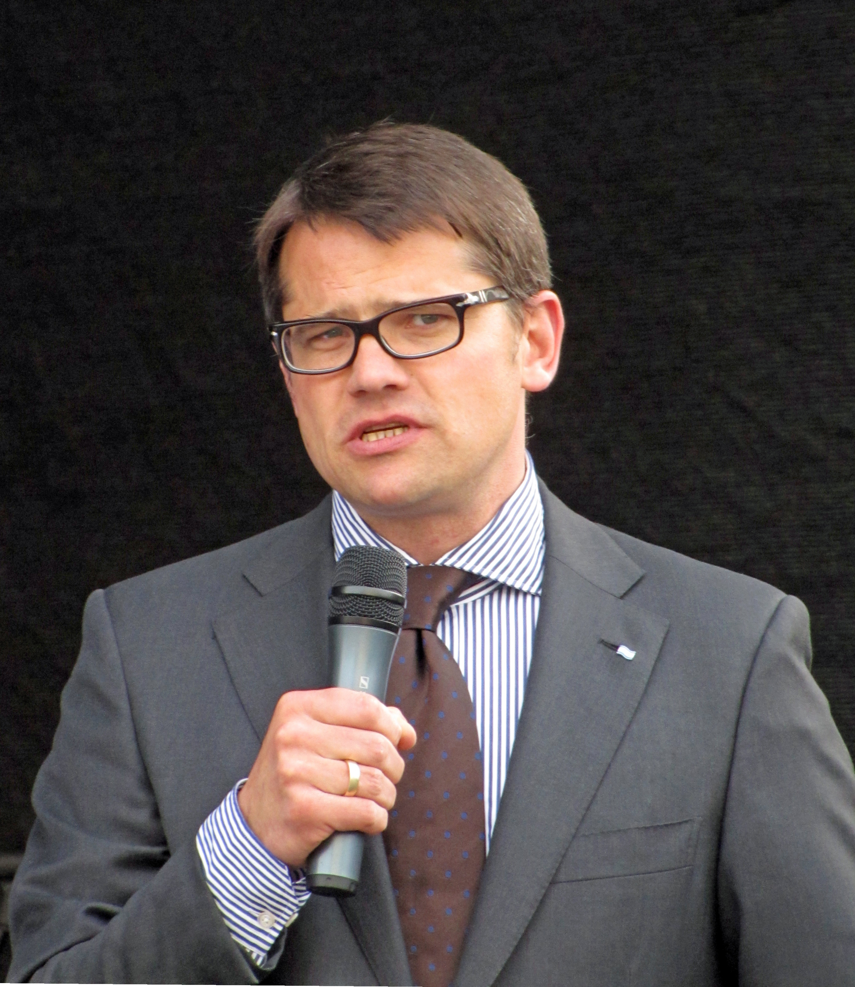 Boris Rhein as Home Secretary of Hesse, 2011 in Frankfurt am Main, Germany.